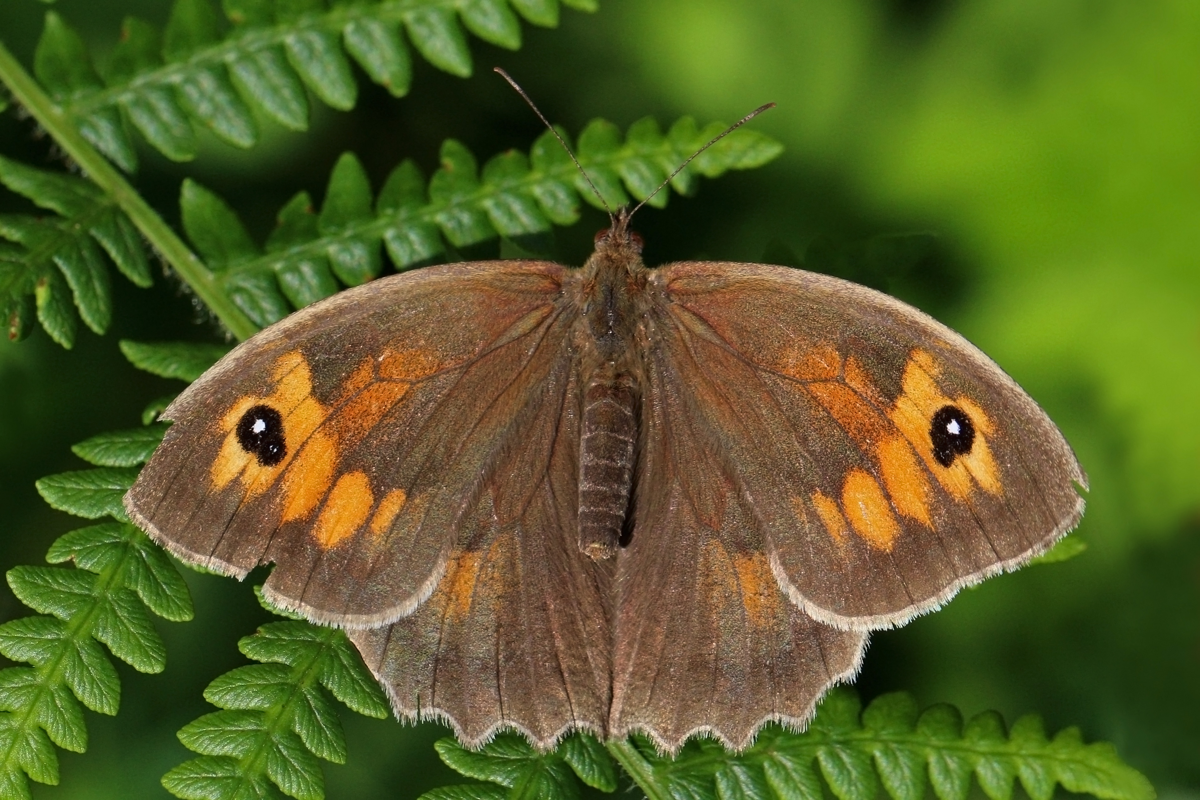 Meadow brown butterfly (Maniola jurtina) female, Bucknell Wood, Northamptonshire